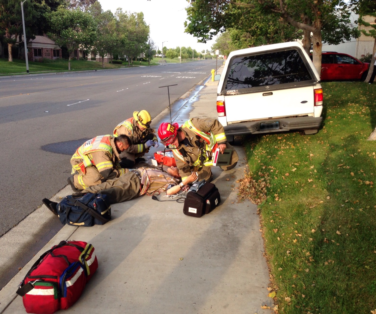 Paramedics in Southern California attend a diabetic man who lost effective control of his vehicle due to low blood sugar (hypoglycemia) and drove it over the curb and into the water main and backflow valve in front of this industrial building. He was not injured, but required emergency intravenous glucose.